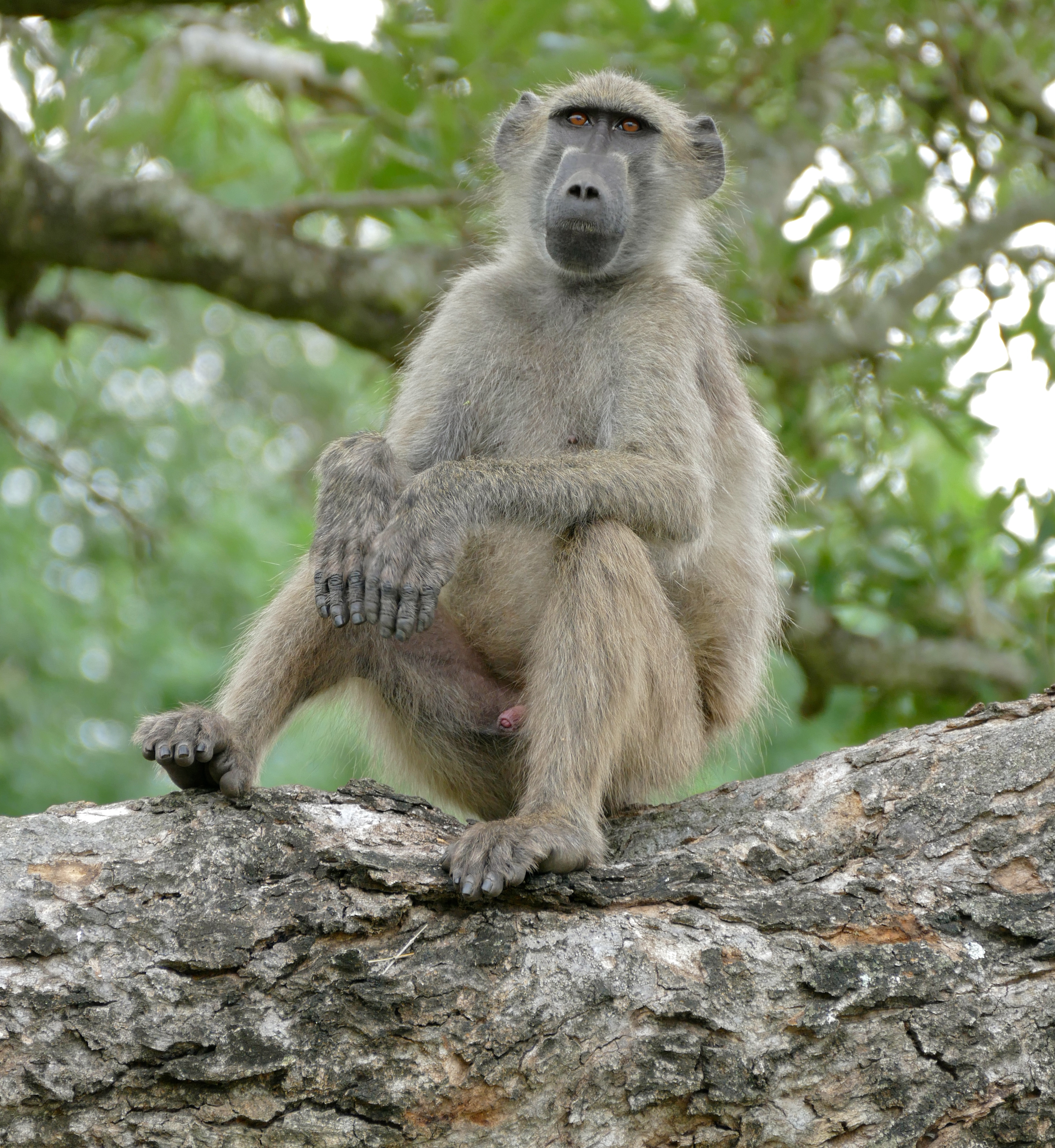 H1-3 Road South of Satara, Kruger NP, SOUTH AFRICA